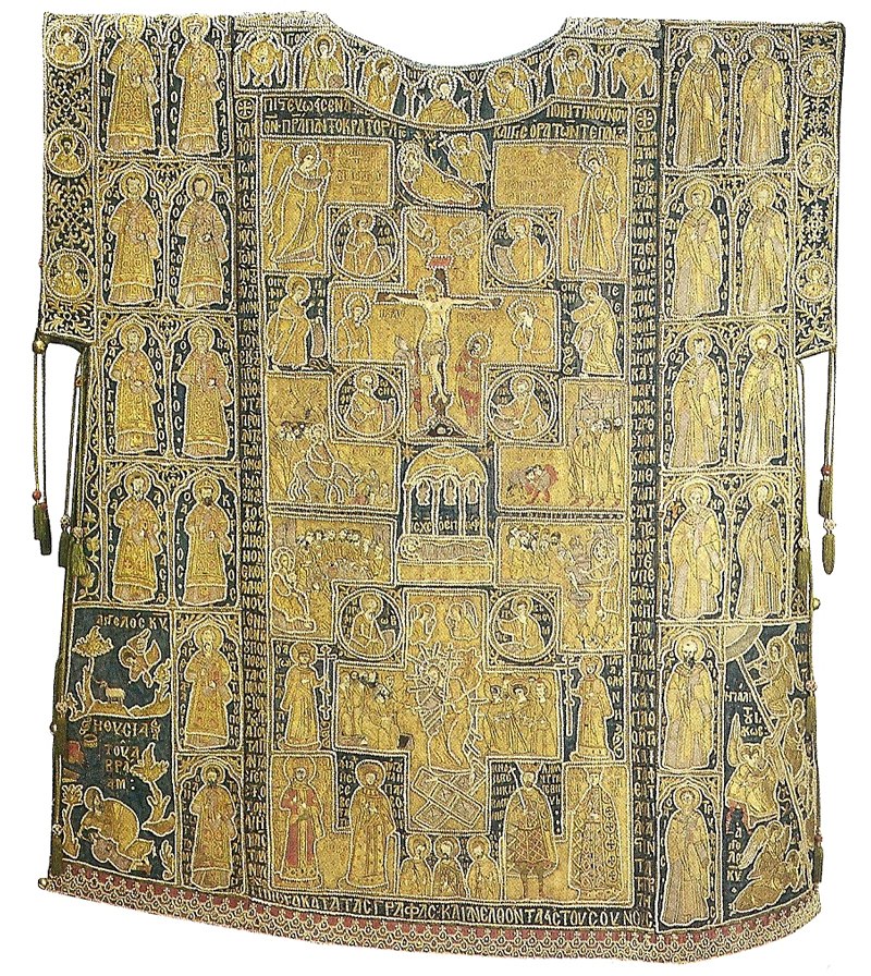 Satin embroidered with gold and silver thread and silk with pearl ornament, approx. 4'5" long